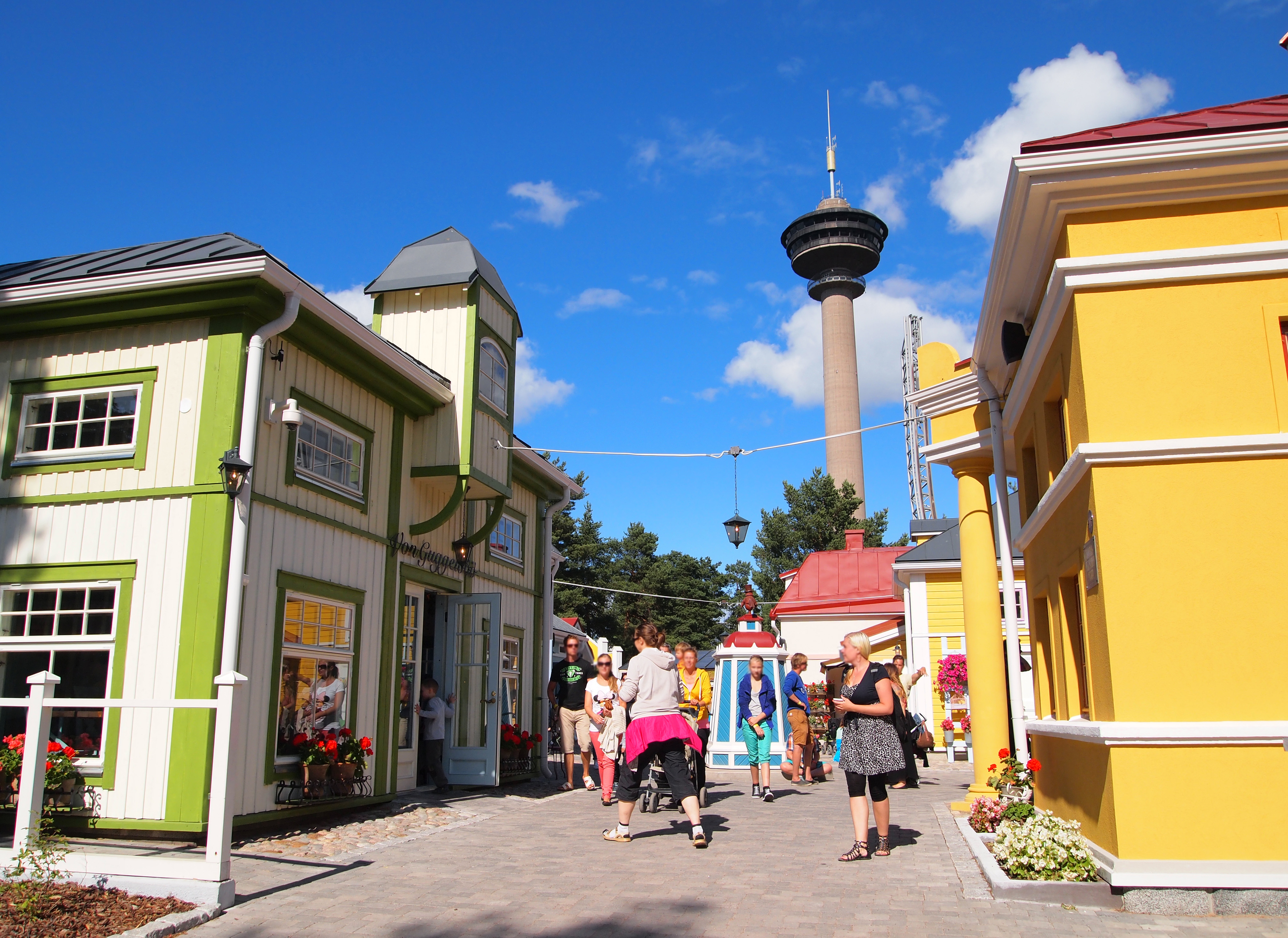 Doghill theme park in Särkänniemi amusement park, Tampere. On the background is shown tower Näsinneula.